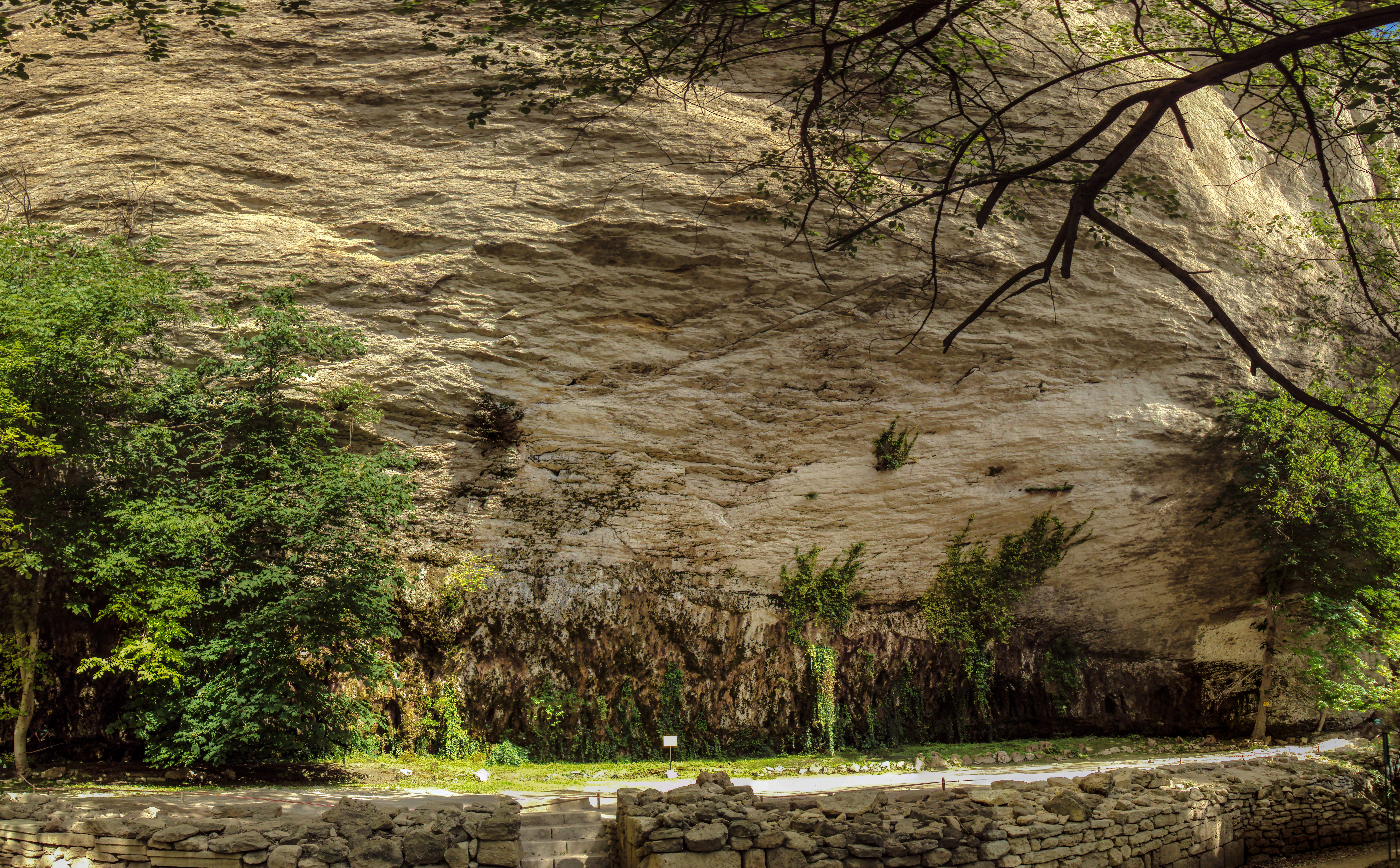 Madara